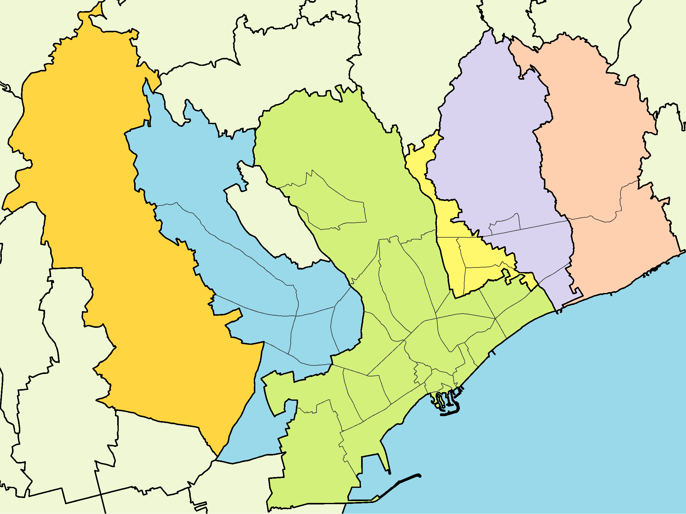 Limassol District municipalities with their quarters.